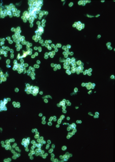 Fluorescent antibody-stained image of Neisseria gonorrhoeae. In a direct fluorescent antibody test, antibodies that have been chemically linked to a fluorescent dye, i.e. the marker, are added to a specimen suspected of containing a pathogen, in this case N. gonorrhoeae bacteria. If the pathogen is present, the antibodies link to the antigen to which they are sensitive - the N. gonorrhoeae bacterial cell wall, here - and under fluorescent microscopy, emit a green signal. Obtained from the CDC Public Health Image Library. Image credit: CDC (PHIL #6511), 1971.